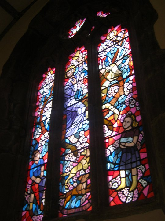 Stained glass window produced in 1970's